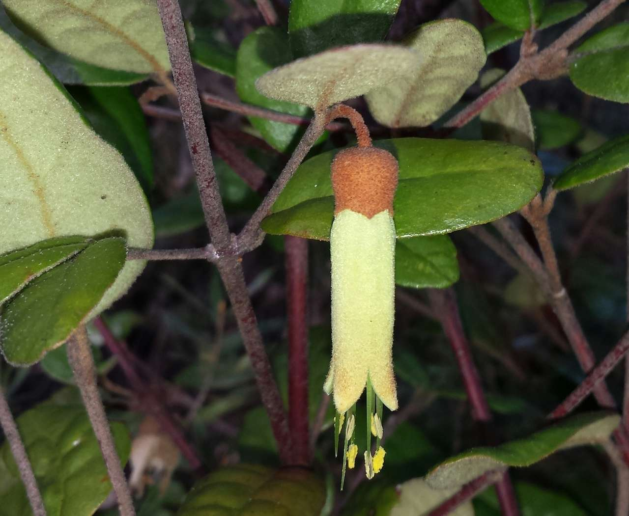 Correa lawrenceana var. grampiana in Grampians National Park